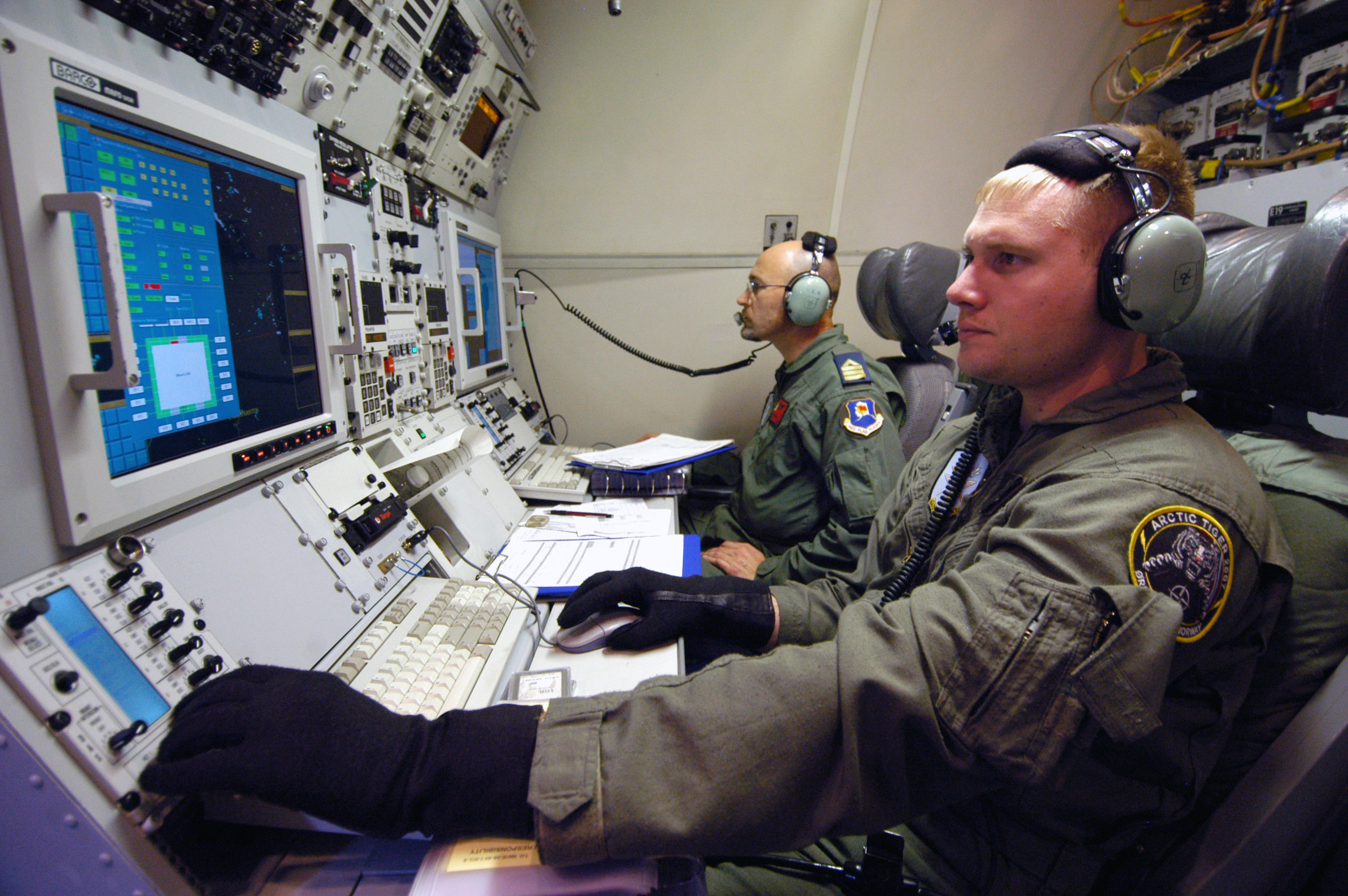 E-3 Sentry system operator of NATO.